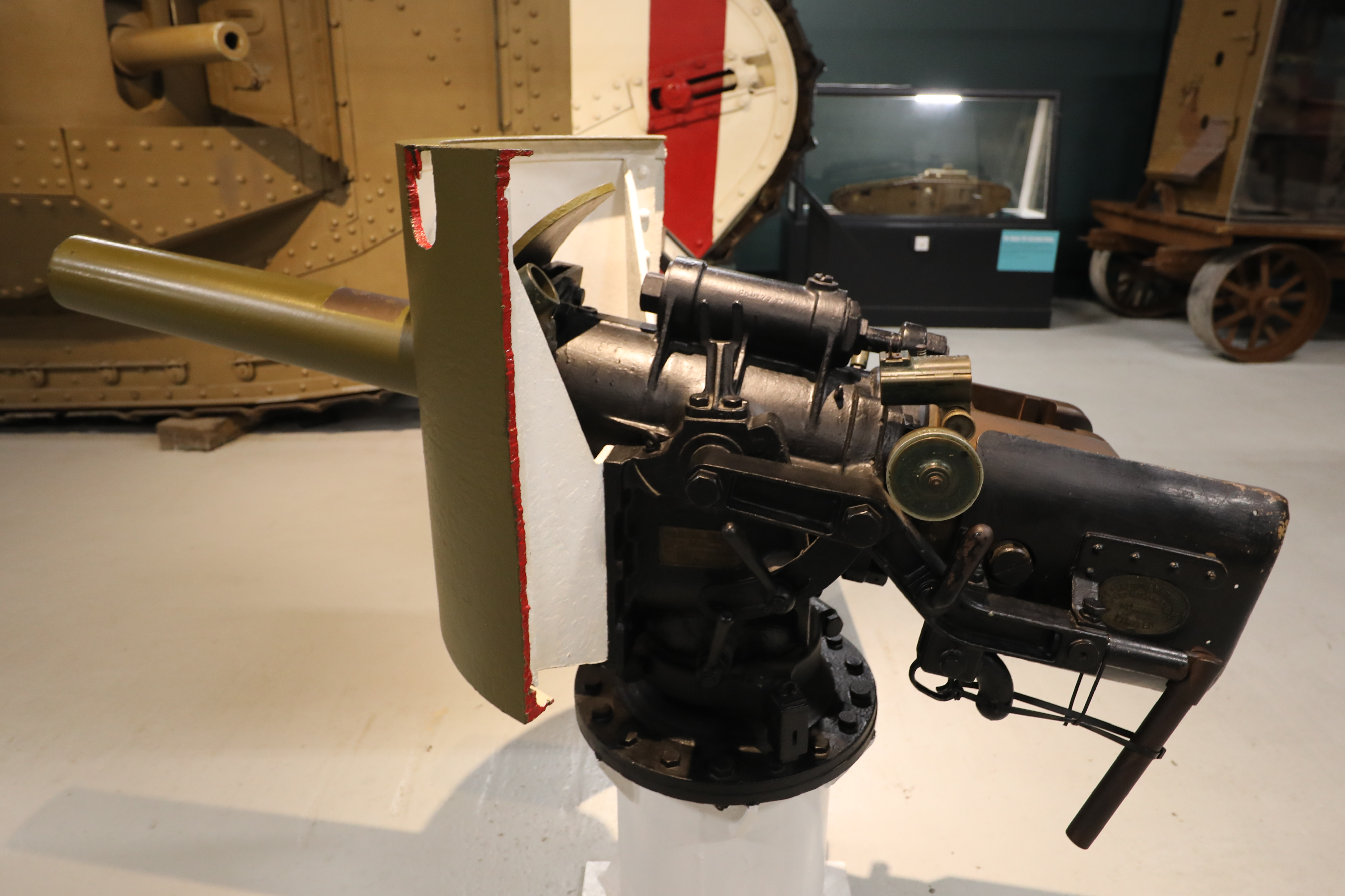 Photo of a QF 6-pounder 6 cwt Hotchkiss gun used in tank gunner training.